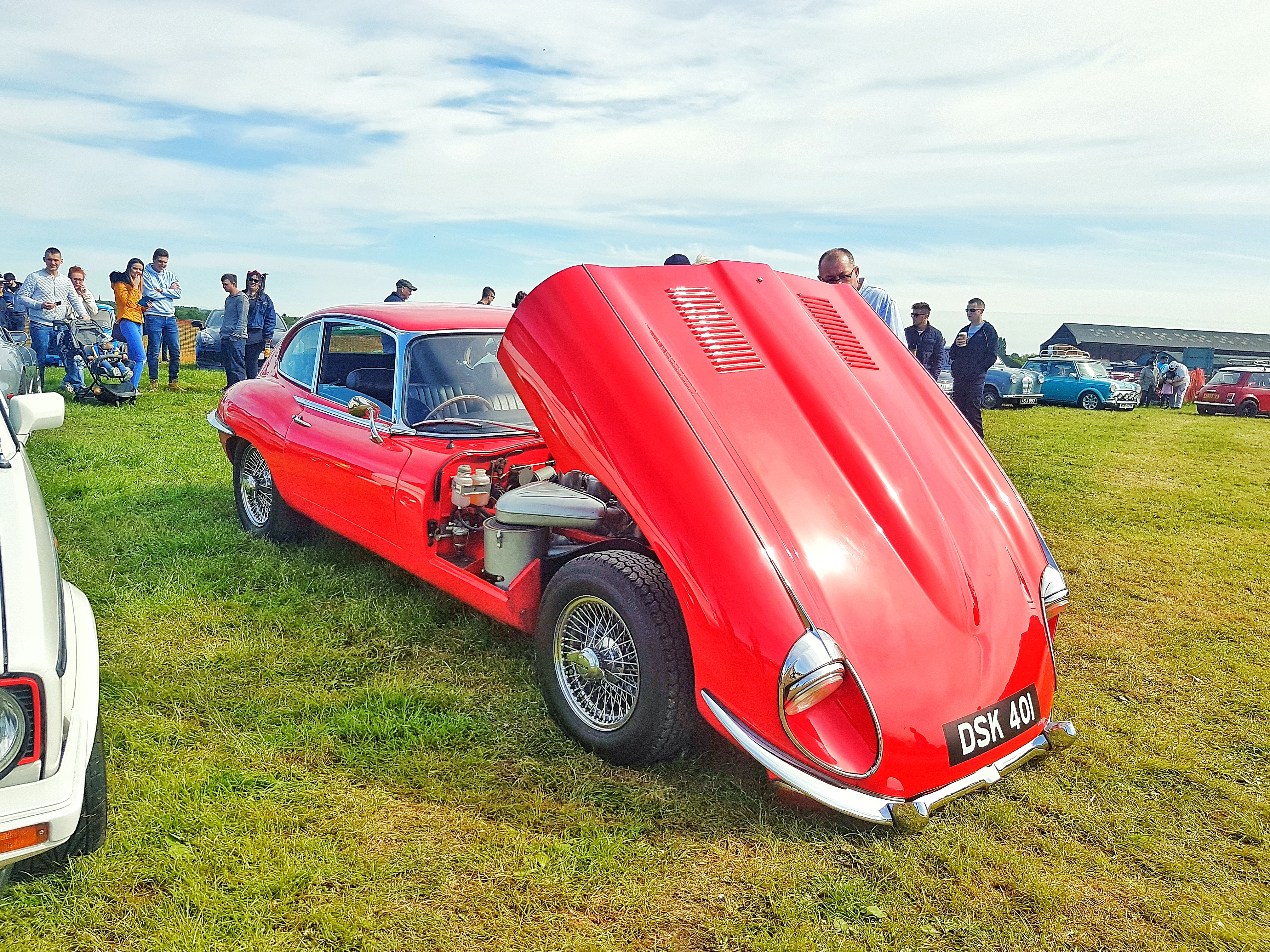 From the manchester cars and coffee event at city airport